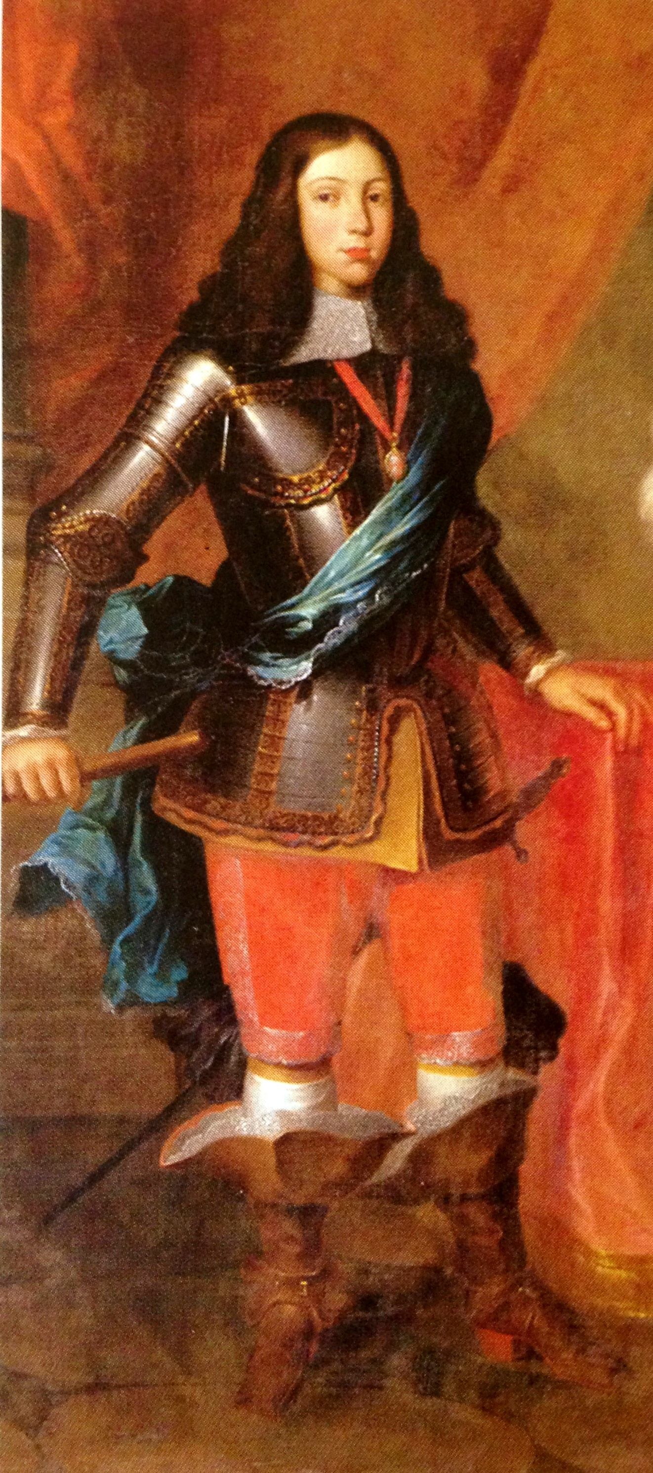 na sala dos duques, Paco de VV